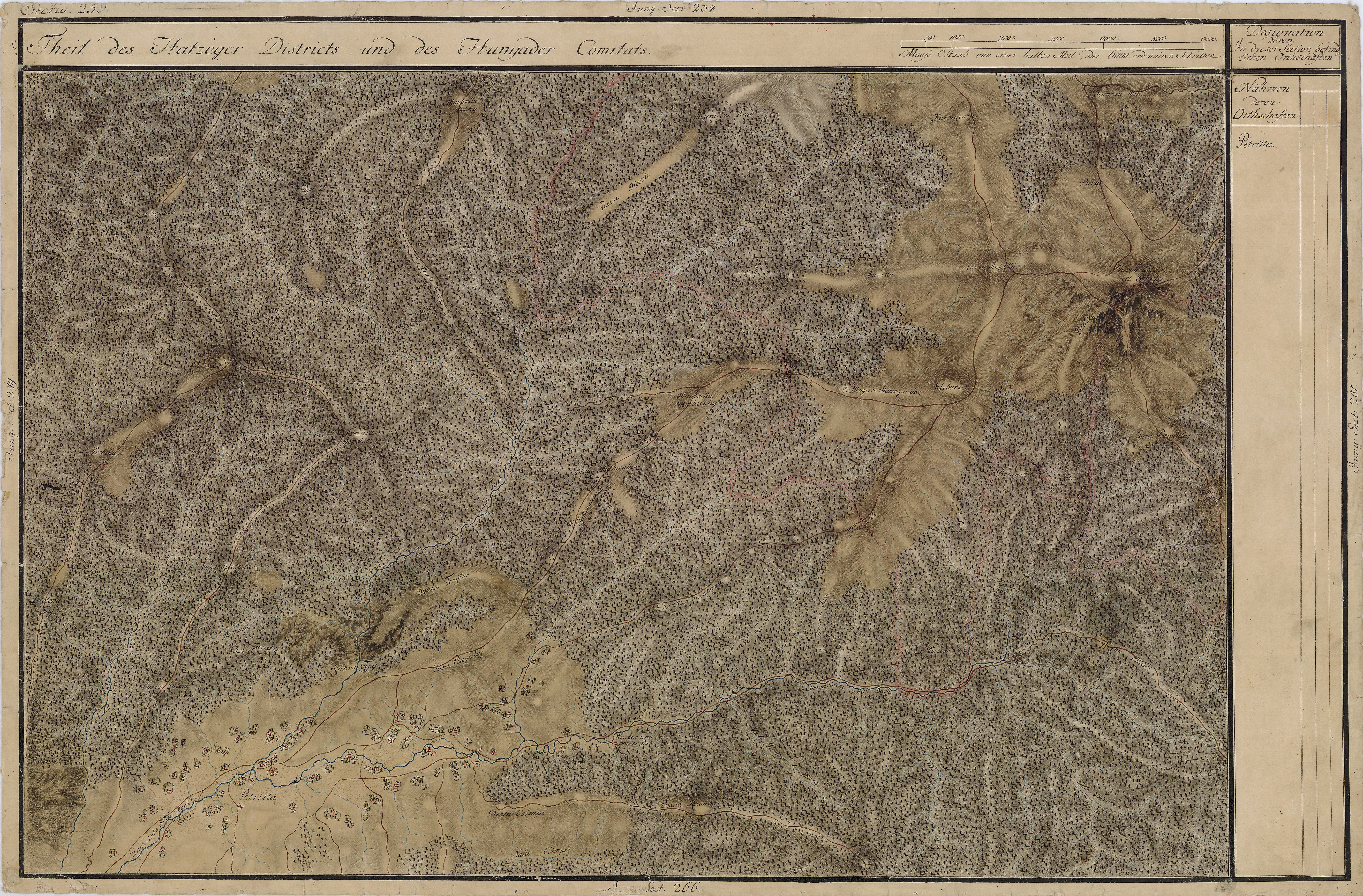 Grand Duchy of Transylvania, 1769-1773. Josephinische Landaufnahme pg.250